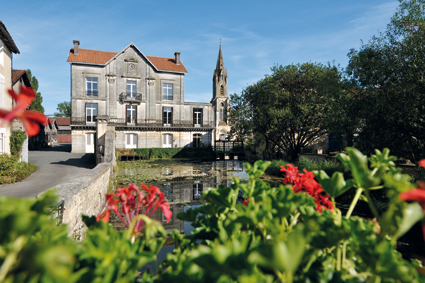 Gautier House